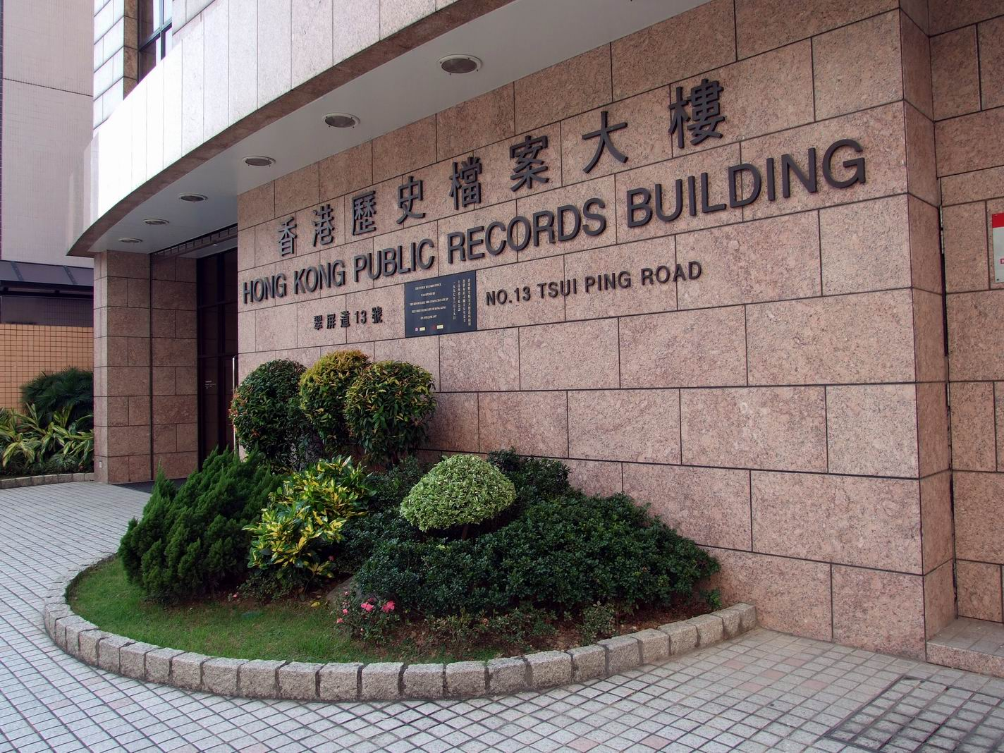 The main entrance of Hong Kong Public Records Building